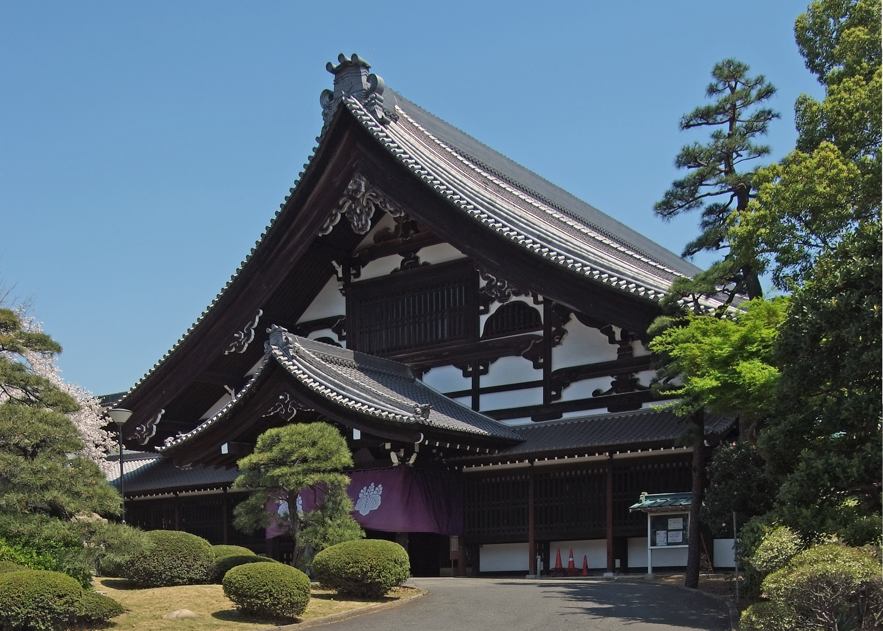 Sōjiji Koshakudai, Tsurumi-ku Yokohama Japan.